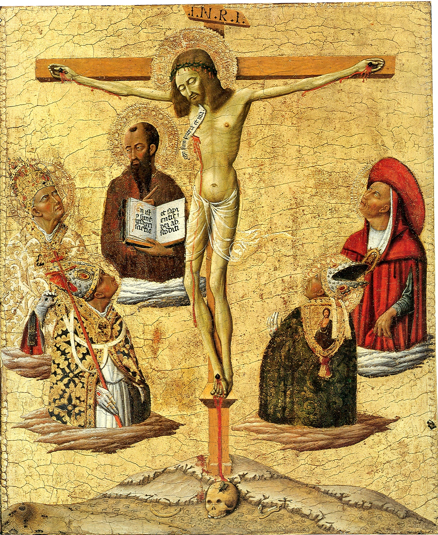 attributed to Joan Rosato, Spanish, active 1447–1482 Mystical Crucifixion: the Four Doctors of the Church and Saint Paul contemplating the Crucifixion, ca. 1445 Tempera and gold on wood panel 51.7 x 44 cm. (20 3/8 x 17 5/16 in.) frame: 58.5 × 52.3 × 8 cm (23 1/16 × 20 9/16 × 3 1/8 in.) Bequest of Dan Fellows Platt, Class of 1895 y1962-64